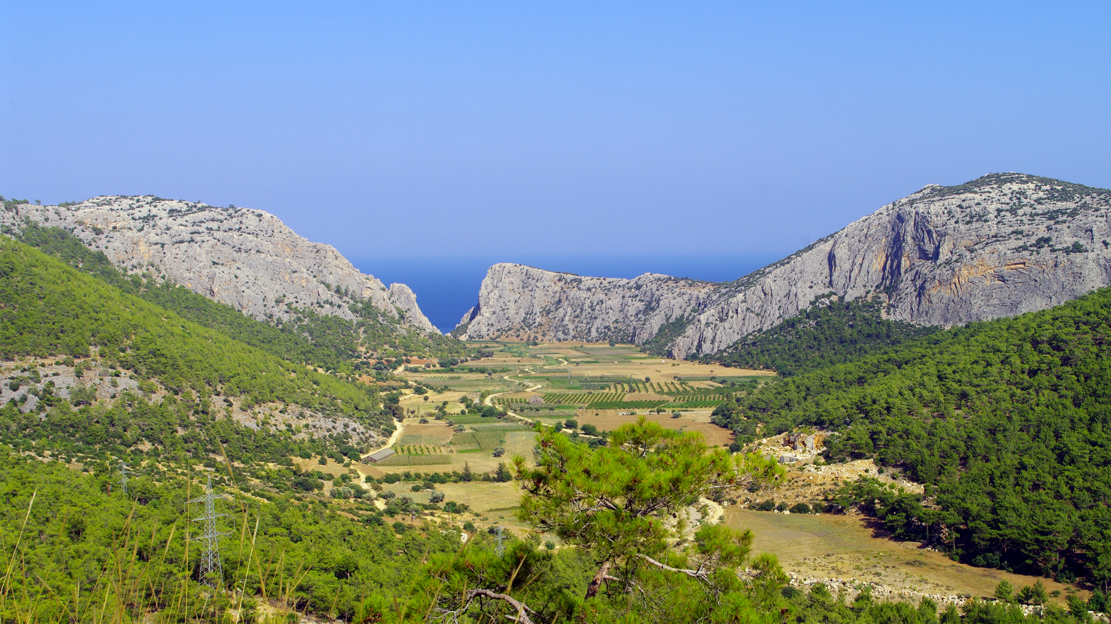 A view of the Eğribük valley to ancient city Palaiapolis near Akdere Village. (The bay at the end of this valley is called as Barbaros Bay, Tahtalimanı or Eğribük Bay). Silifke - Mersin, Turkey.